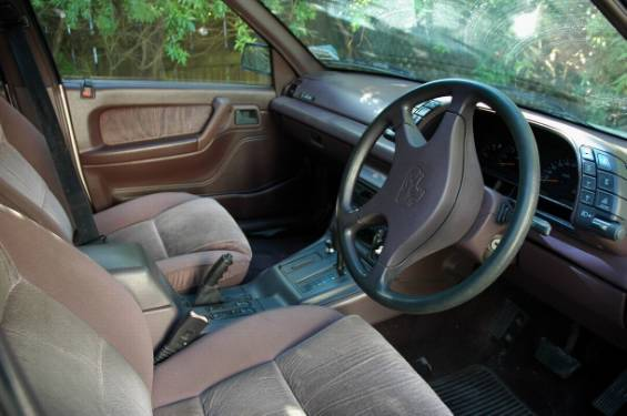 1990 Holden Calais (VN), photographed in New Zealand. This is the pre-update model.